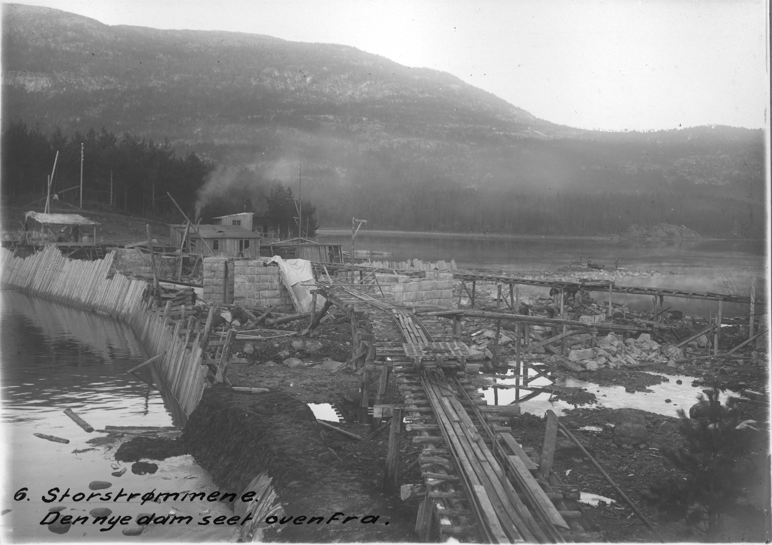 Nidelvas regulering. "Storstrømmene. Den nye dam sett ovenfra"